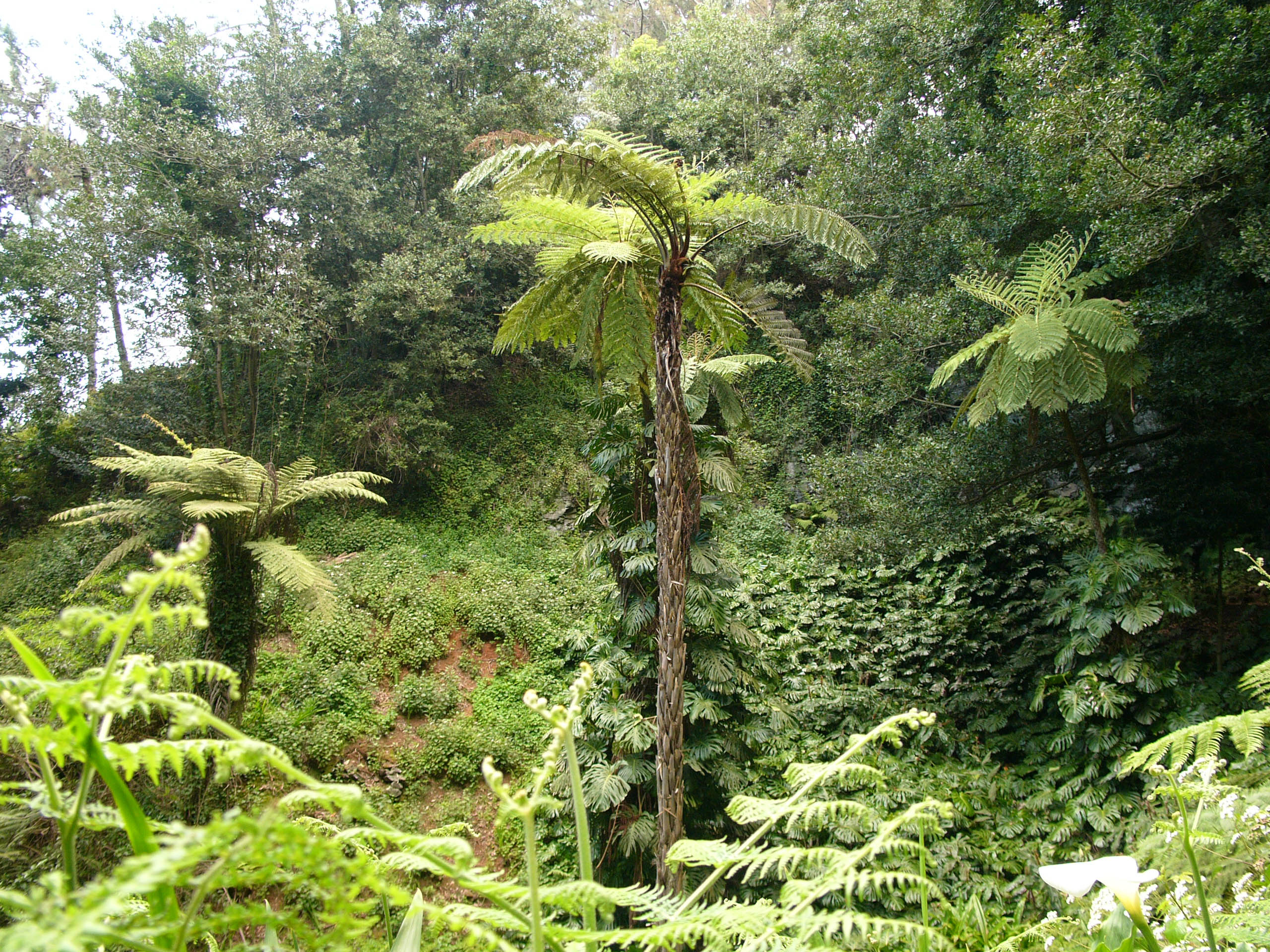 Inferno in Blandys Garden, Madeira (with Cyathea cooperi and Monstera deliciosa)